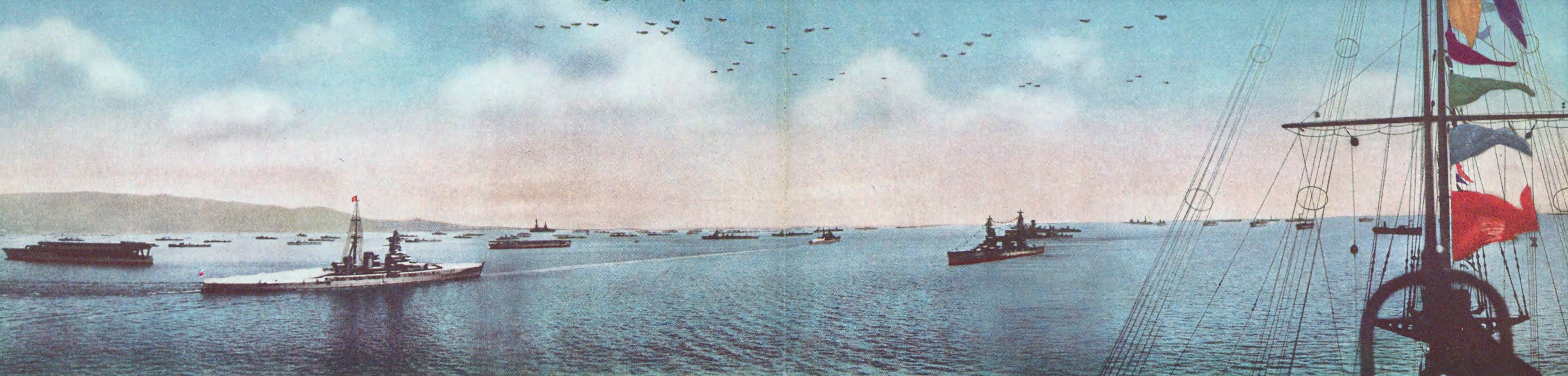 Naval review (Imperial Japanese Navy).